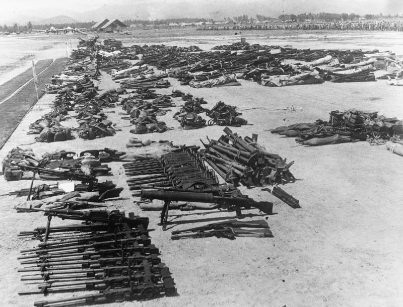 Japanese Surrender in Malaya, 1945 Piles of Japanese weapons and equipment surrendered to the 25th Indian Division at Kuala Lumpur.